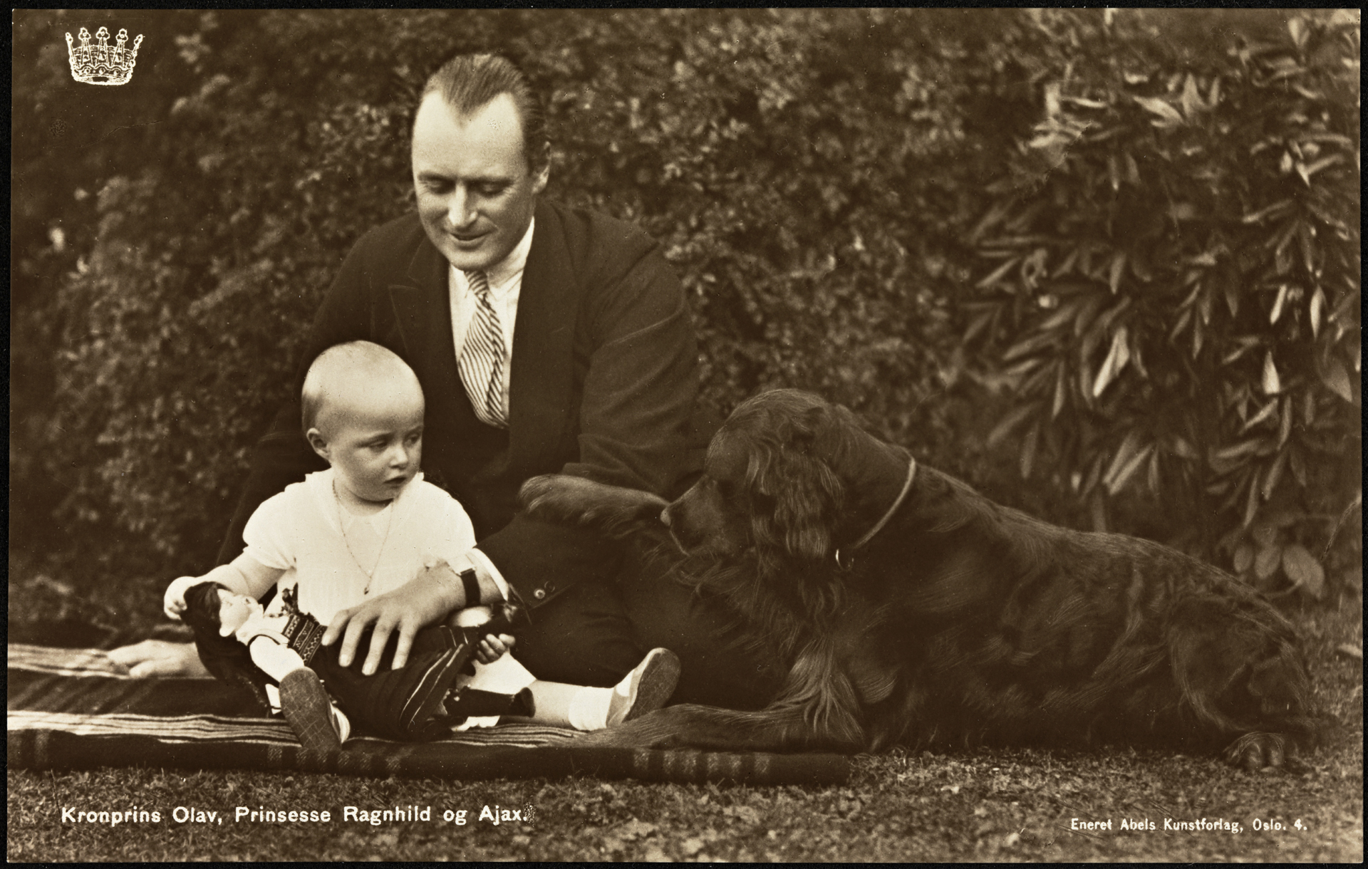 Tittel / Title: Kronprins Olav, Prinsesse Ragnhild og Ajax Motiv / Motif: Postkort. Dato / Date: 1931 Fotograf / Photographer: ukjent / unknown Utgiver / Publisher: Abels Kunstforlag Eier / Owner Institution: Nasjonalbiblioteket / National Library of Norway Lenke / Link: Bildesignatur / Image Number: blds_04742